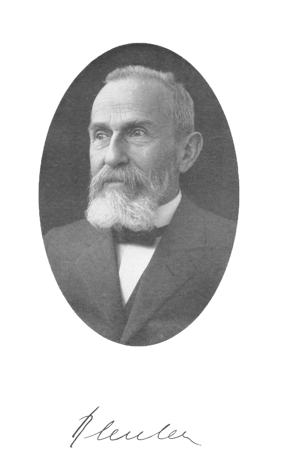 Eugen Bleuler